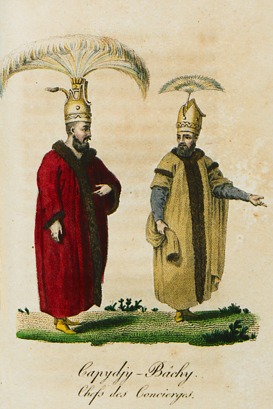 Antoine-Laurent Castellan. Moeurs, usages, costumes des Othomans, et abrégé de leur histoire; par A. L. Castellan, auteur de Lettres sur la Morée et sur Constantinople, Paris, Nepveu, 1812.